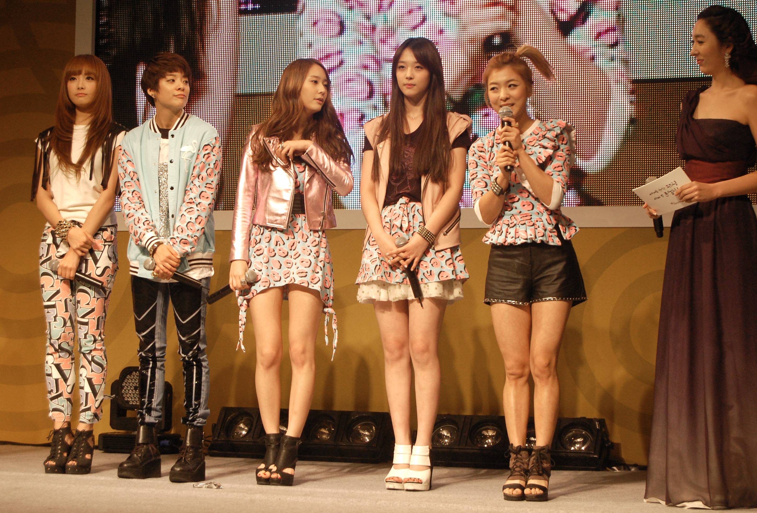 Popular K-Pop group f(x) performs one of their hit songs to celebrate the 40th anniversary of Korean Culture and Information Service (KOCIS) on December 19, 2011.